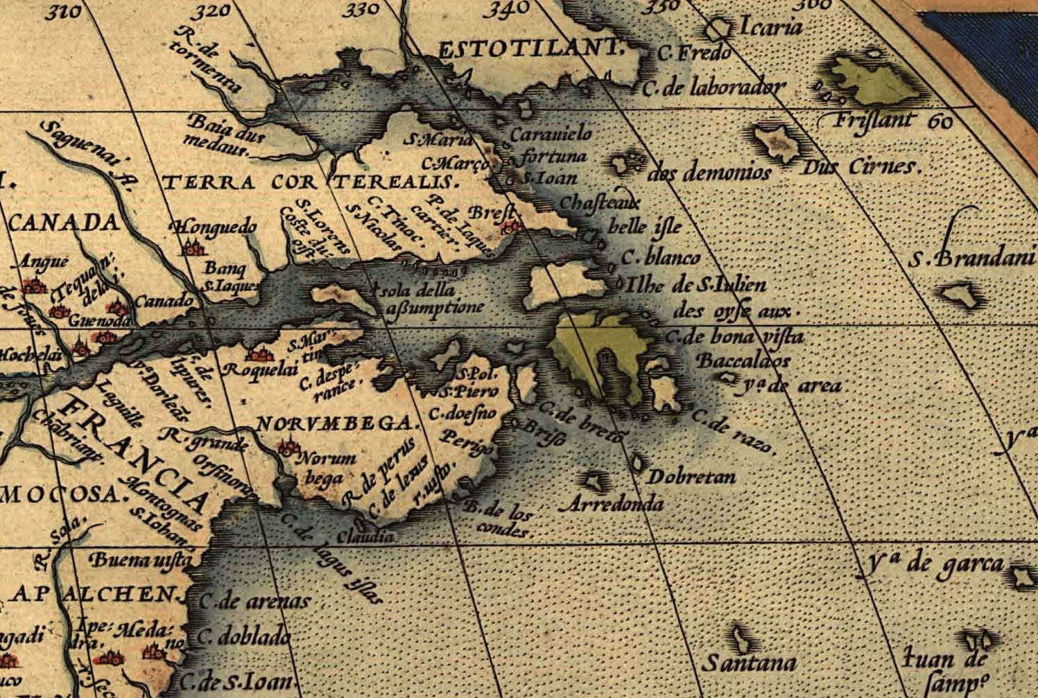 Northeastern part of Ortelius Americas map from 1570. (Map showing numerous more or less anachronisticly placed mythical names on locations, as well as several phantom islands, which was regular for maps in that time. For instance: Norvmbega, Terra Corterealis, Friesland, Estotiland with more.)